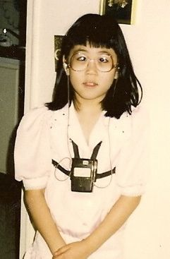 A girl wears a hearing aid in the early 1980s. The transistor for the hearing aid is worn over the chest, attached by shoulder straps.